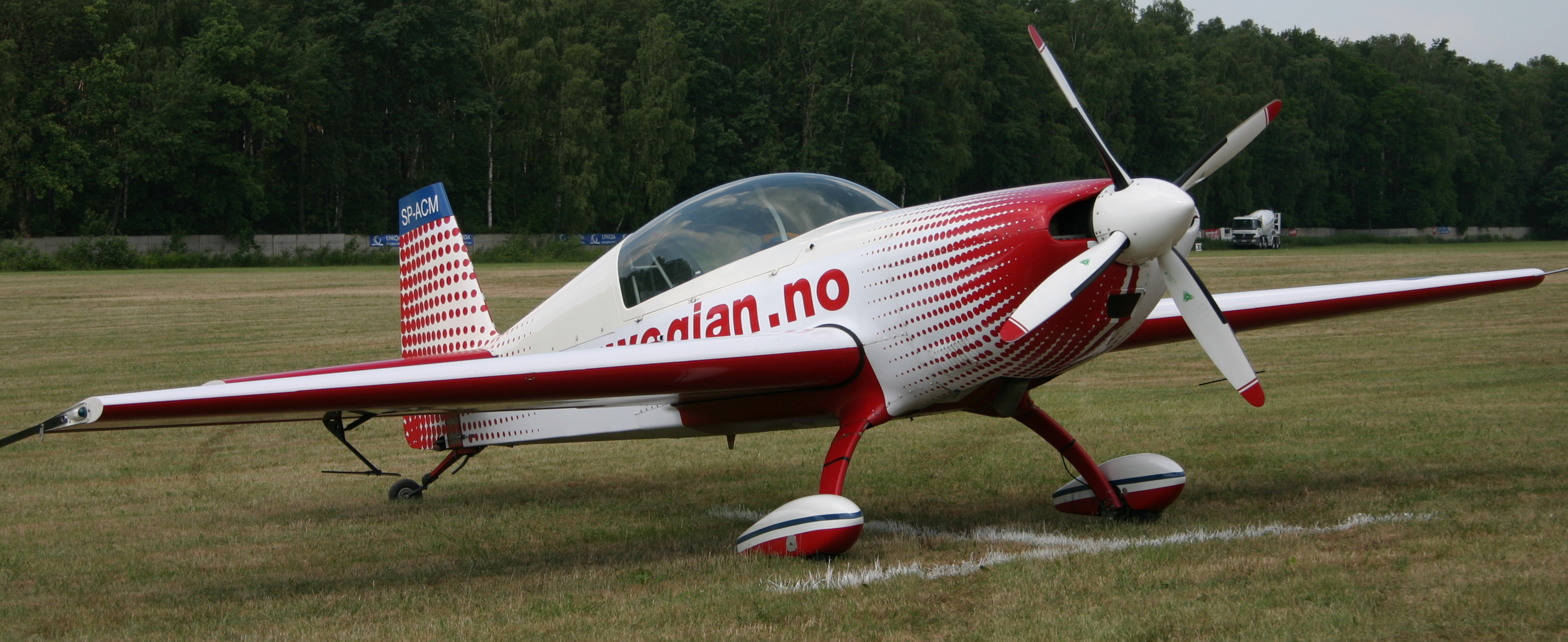 Extra-300L (SP-ACM) during Góraszka Air Picnic 2007